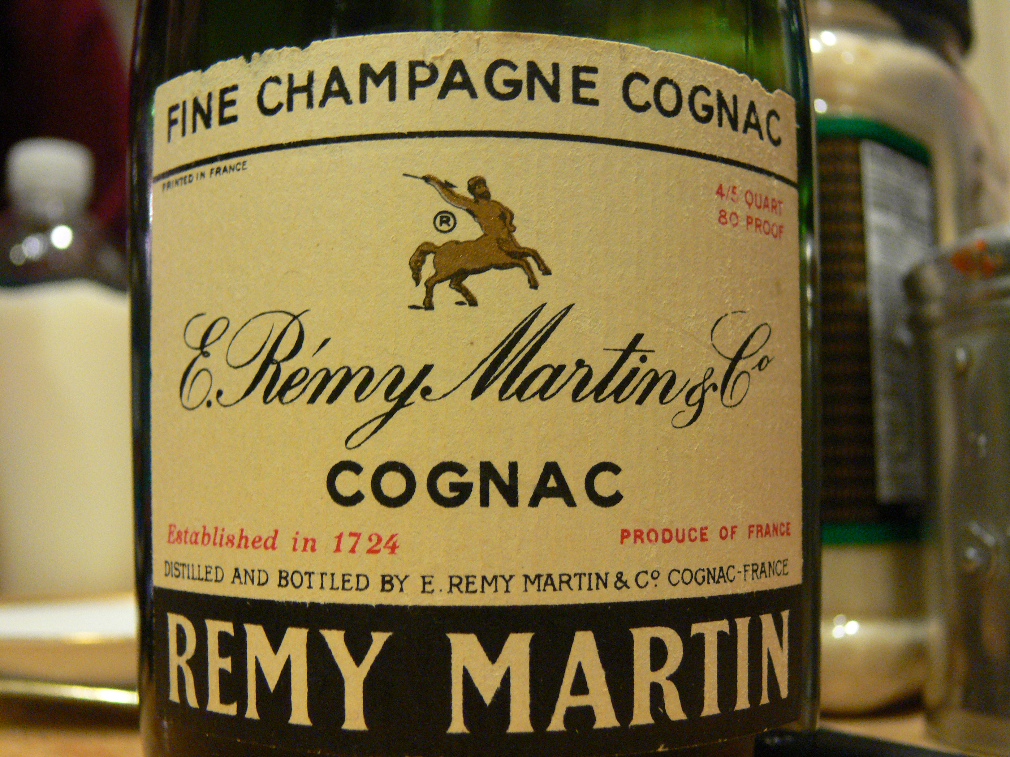 Remy Martin VSOP